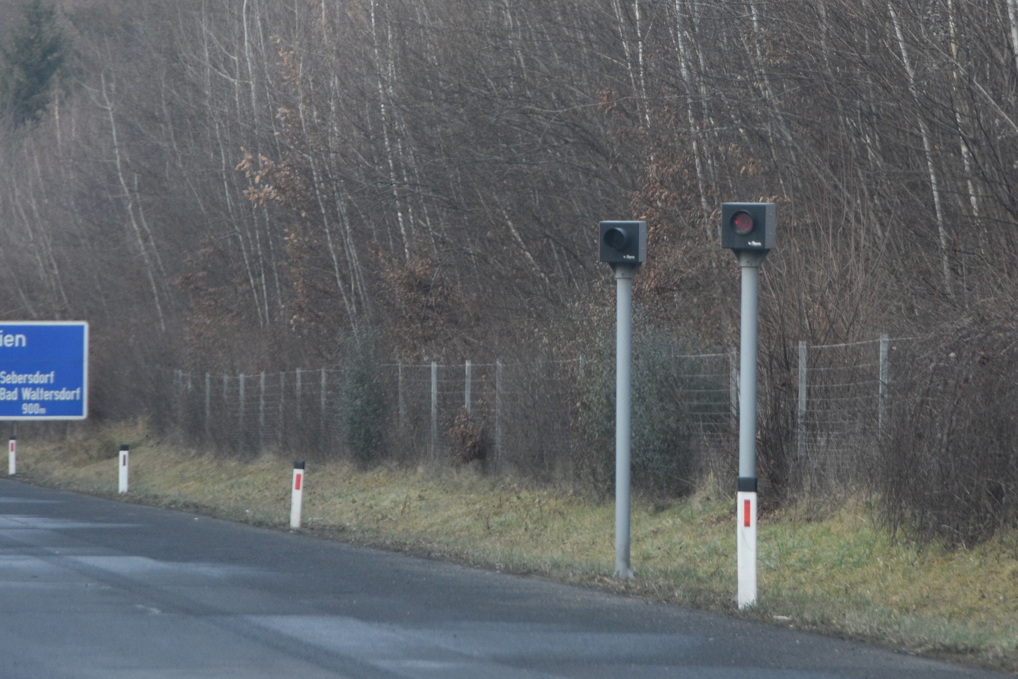 Speed cameras in Austria